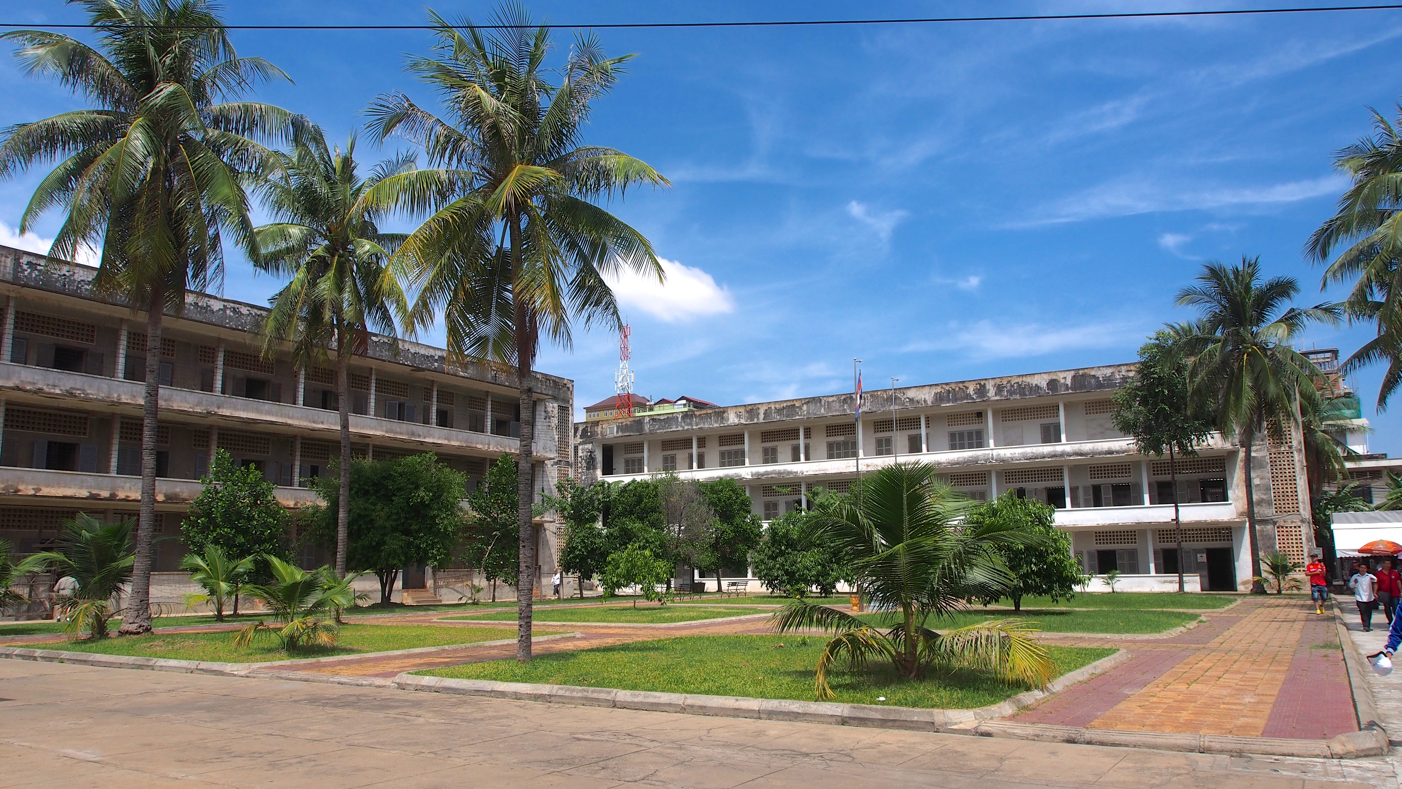 The Tuol Sleng Genocide Museum (Khmer: សារមន្ទីរឧក្រិដ្ឋកម្មប្រល័យពូជសាសន៍ទួលស្លែង) is a museum in Phnom Penh, the capital of Cambodia. The site is a former high school which was used as the notorious Security Prison 21 (S-21) by the Khmer Rouge regime from its rise to power in 1975 to its fall in 1979. Tuol Sleng (Khmer [tuəl slaeŋ]) means "Hill of the Poisonous Trees" or "Strychnine Hill". Tuol Sleng was only one of at least 150 execution centers in the country,[1] and as many as 20,000 prisoners there were killed.